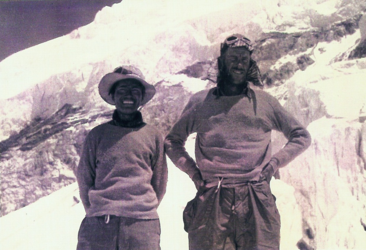 Tenzing and Hillary. Photo from the collection of John Henderson.